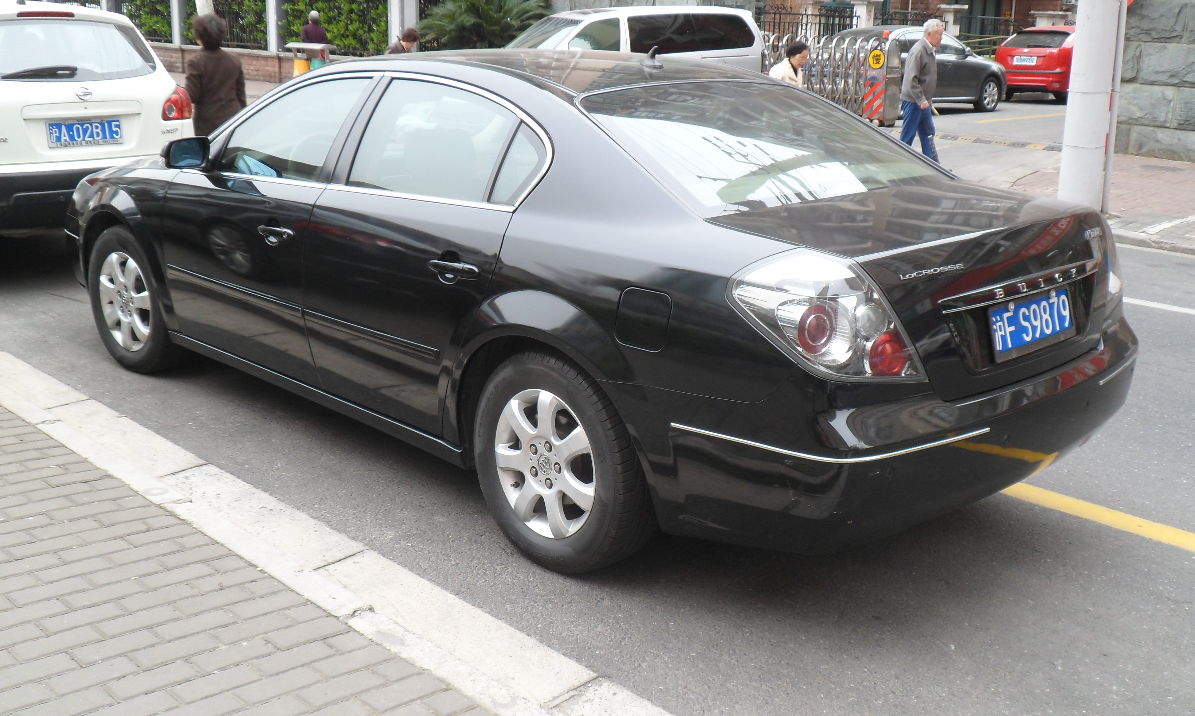 Buick LaCrosse CN photographed in Shanghai, China.